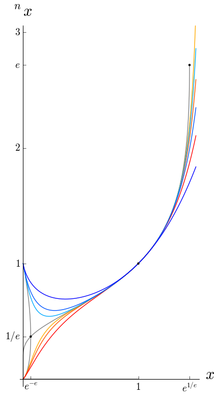 Graph of tetrations n x {\displaystyle {}^{n}x} , converging to the function W ( − ln ⁡ ( z ) ) − ln ⁡ ( z ) {\displaystyle {\frac {W(-\ln(z))}{-\ln(z) } in black between e − e {\displaystyle e^{-e and e 1 / e {\displaystyle e^{1/e . Notice the convergence in [ 0 , e − e ≈ 0.066 ] {\displaystyle [0,e^{-e}\approx 0.066]} , oscillating between the two branches of the bifurcation. Selfmade with MuPAD.